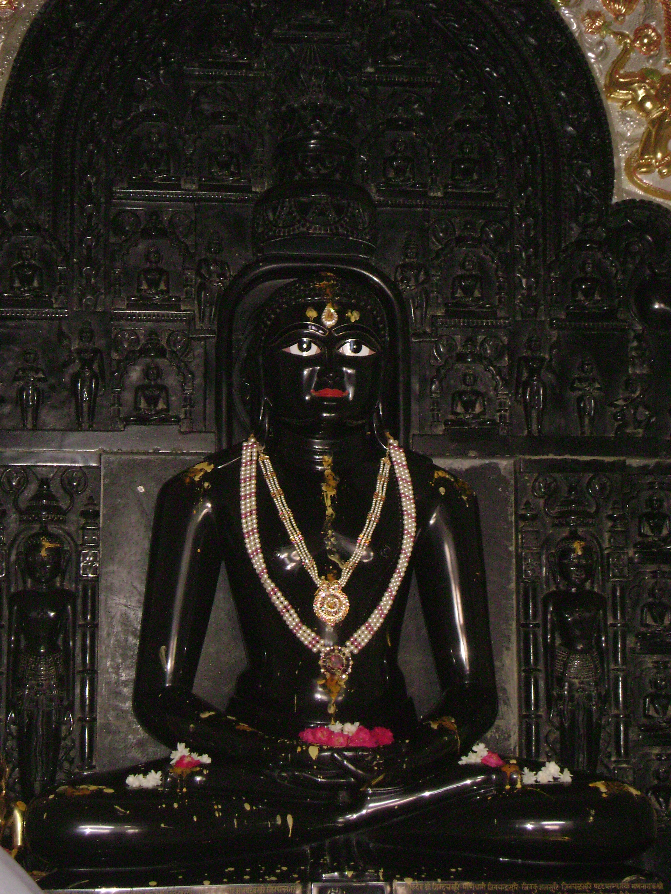 This is the picture of god of Jain from Udaipur,India.